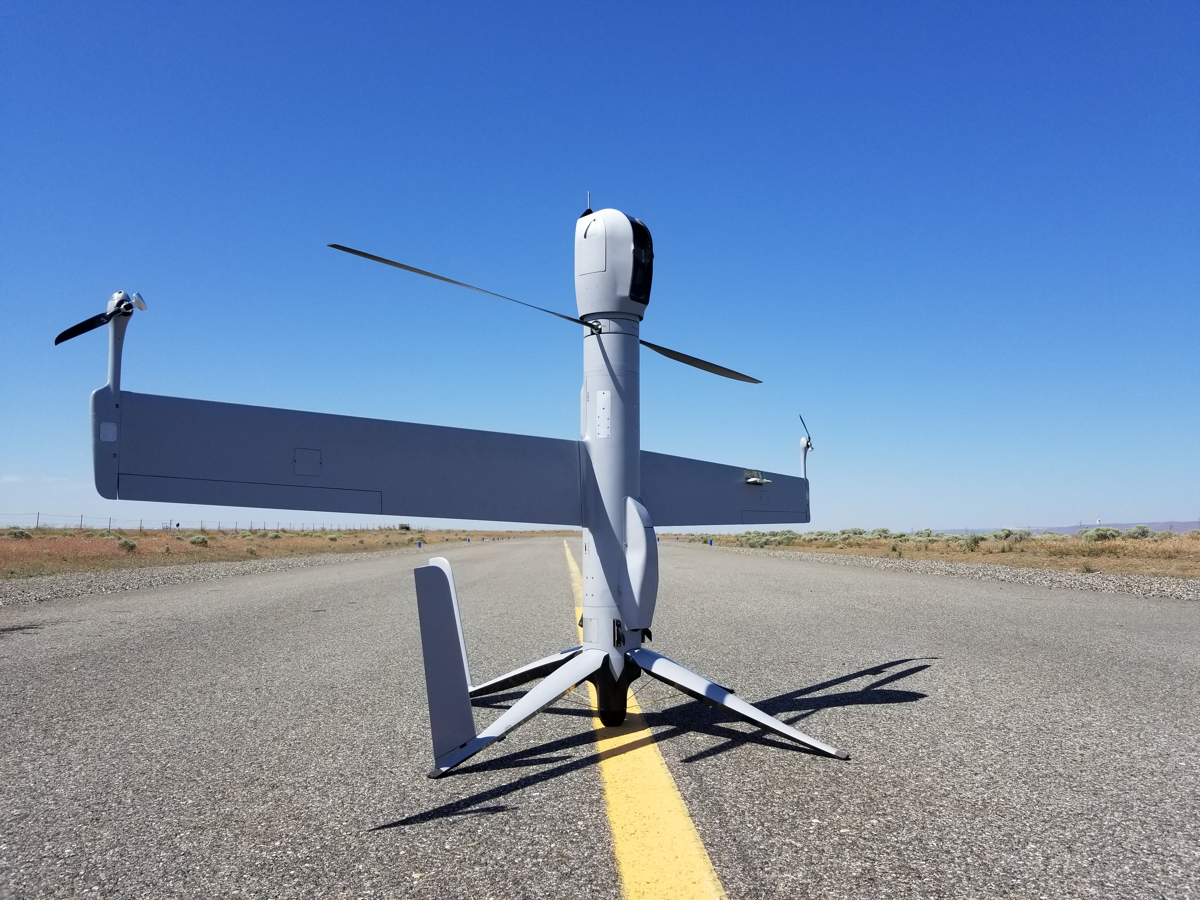 Flexrotor standing by for takeoff